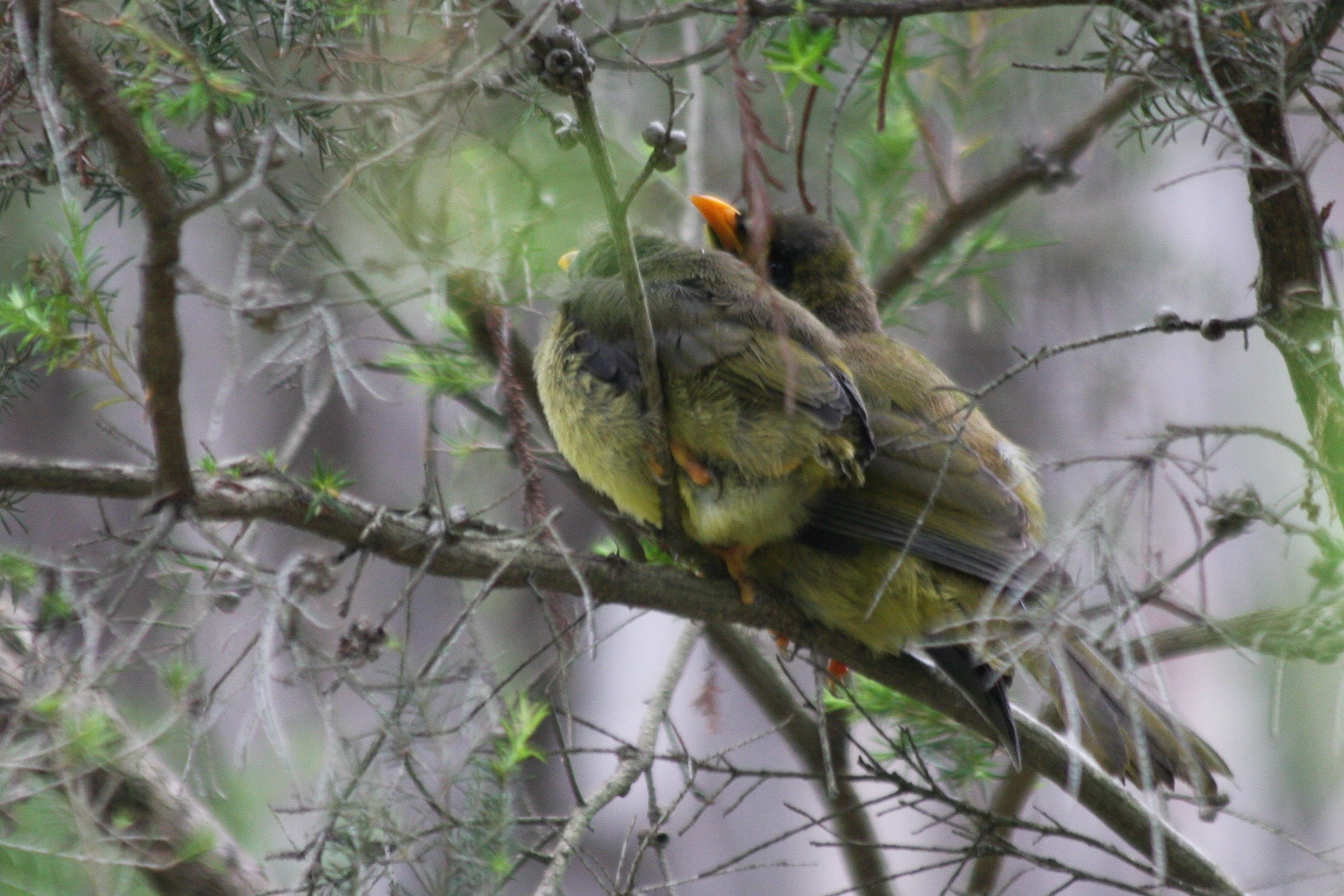 Fledgling Bell Miner (Manorina melanophrys) with adult taken at the Royal Botanical Gardens, Melbourne December 7, 2010.